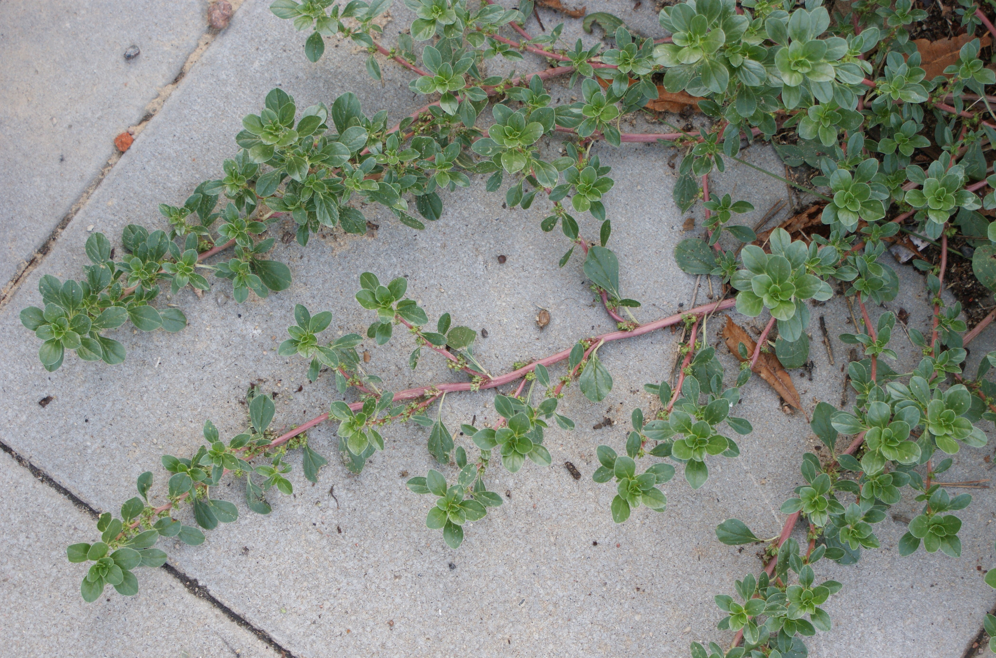 Amaranthus blitoides. Szczecin Dąbie (NW Poland)